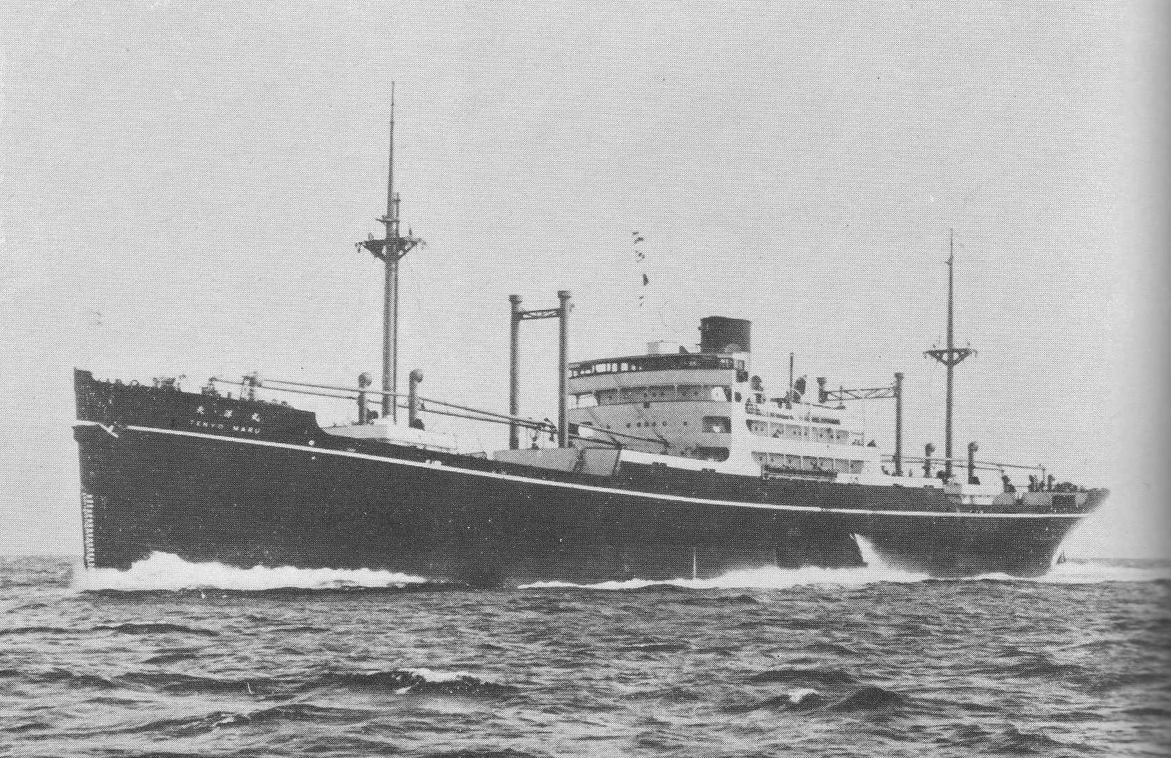 Toyo Kisen "Tenyo Maru" (1935). Sunk during the Invasion of Salamaua–Lae on 10 March 1942.